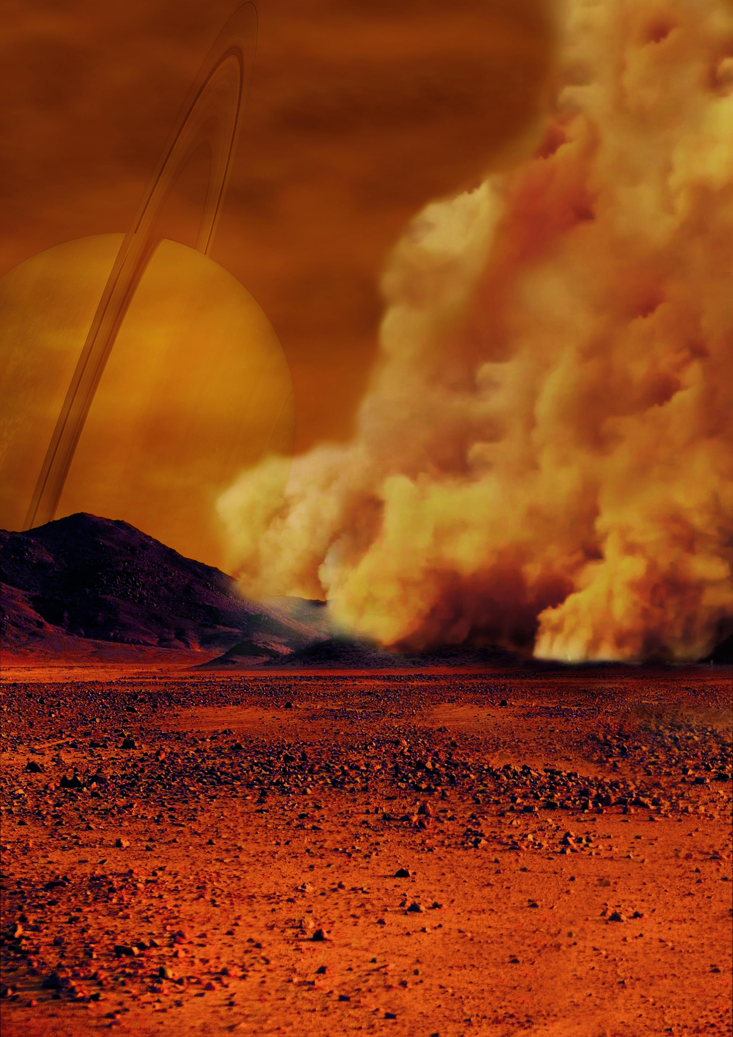 Artist's concept of a dust storm on Titan. Researchers believe that huge amounts of dust can be raised on Titan, Saturn's largest moon, by strong wind gusts that arise in powerful methane storms. Such methane storms, previously observed in images from the international Cassini spacecraft, can form above dune fields that cover the equatorial regions of this moon especially around the equinox, the time of the year when the Sun crosses the equator. The Cassini spacecraft ended its mission on Sept. 15, 2017.